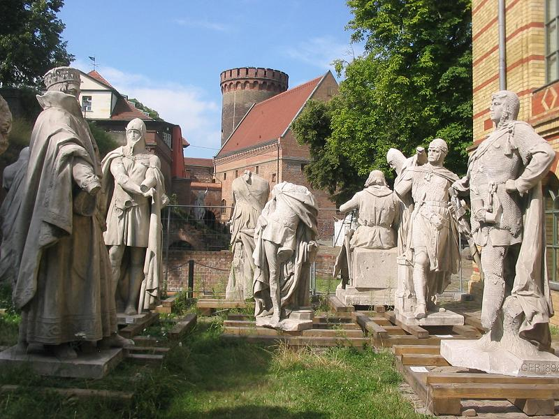 Statues of the former Siegesallee in the Spandau Citadel in August 2009, before its conservation-restoration.